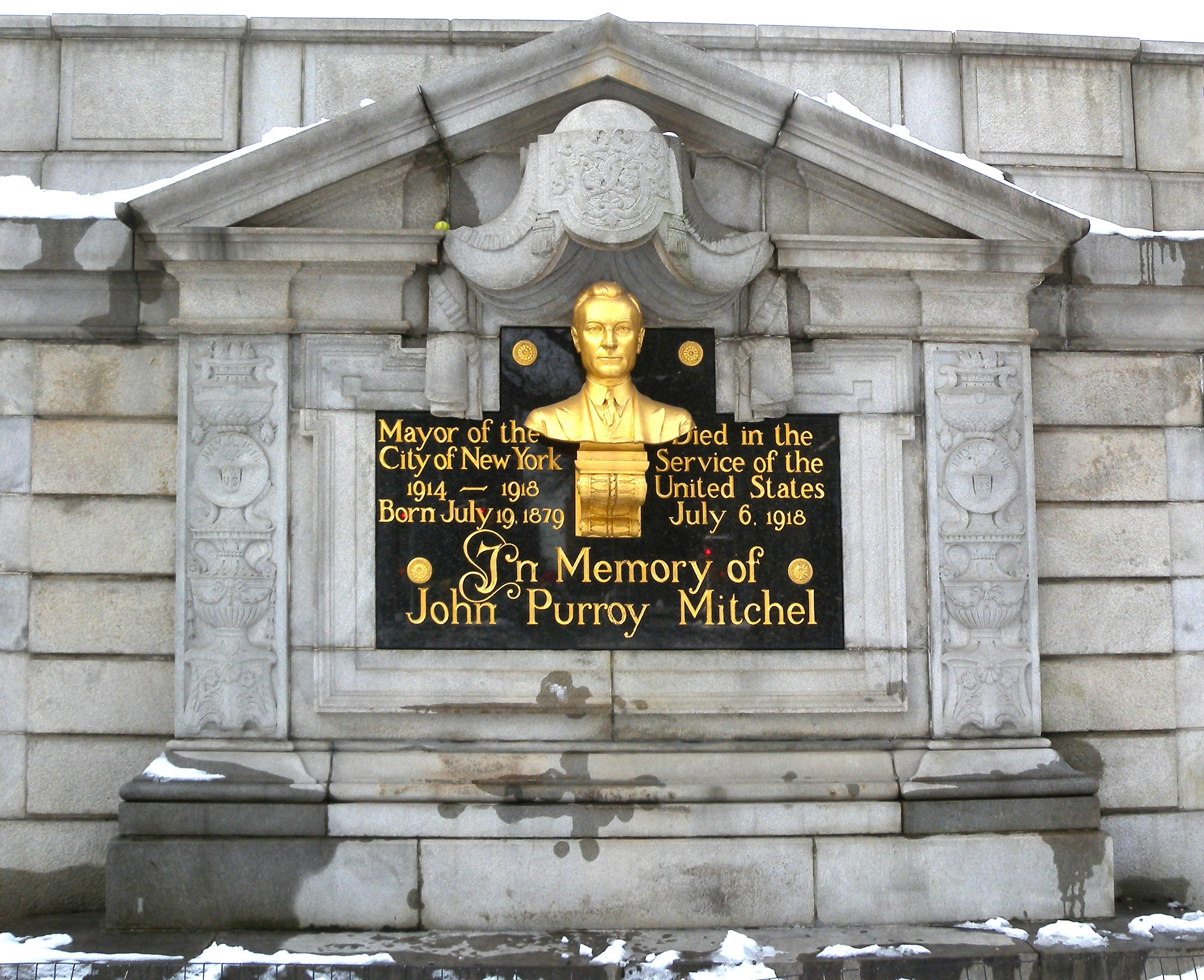 Looking west from East Drive (E90) at memorial to File:John Purroy Mitchel.jpg on a cloudy afternoon after snowfall. Architects: Thomas Hastings and Don Barber. Sculptor: Adolph Alexander Weinman. Dedicated in 1928.